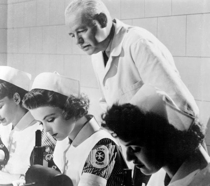 Promotional still for the 1944 short film, Reward Unlimited, dramatizing the need for volunteer military nurses for the U. S. Cadet Nurse Corps during World War II. Snipe on reverse side reads as follows: 5. Instruction in the bacteriology laboratory is undertaken by Dorothy McGuire as Peggy Adams, and fellow students, in "Reward Unlimited", Vanguard's U. S. Cadet Nurse Corps short subject produced for the U. S. Public Health Service.